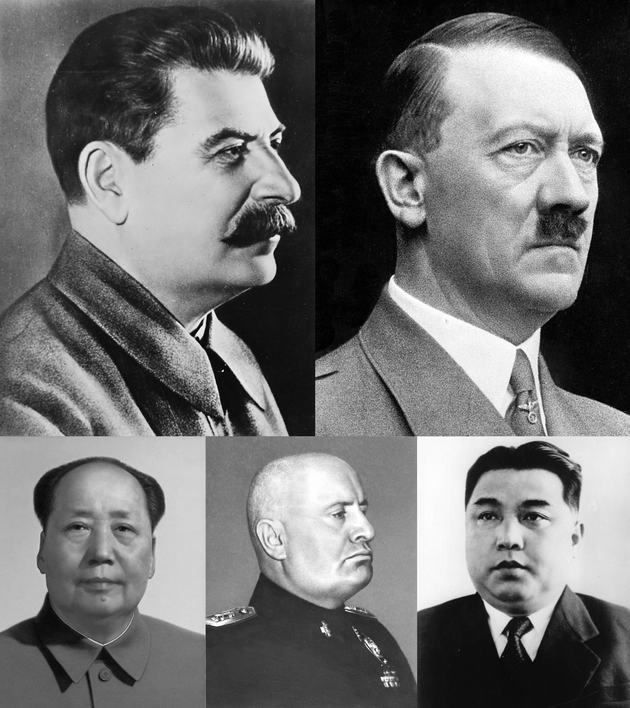 Collage of totalitarian leaders (each row - left to right) Joseph Stalin, Adolf Hitler, Mao Zedong, Benito Mussolini, and Kim Il-sung. Individual pictures: File:JStalin Secretary general CCCP 1942.jpg File:Adolf Hitler cropped 2.jpg File:Mao Zedong 1959 (cropped).jpg File:Benito Mussolini portrait as dictator (retouched).jpg File:Kim Il Sung Portrait-2.jpg